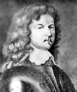 Portrait of John Boys